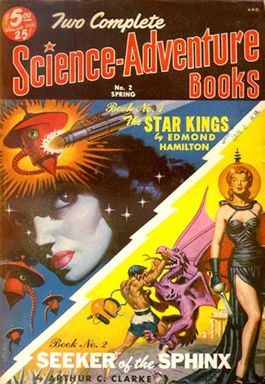 Cover, Two Complete Science Adventure Books, Spring 1951